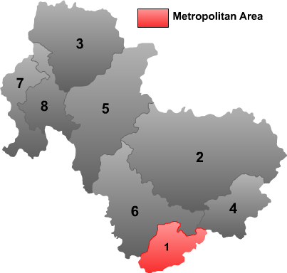 Map of Qingyuan in Guangdong province.